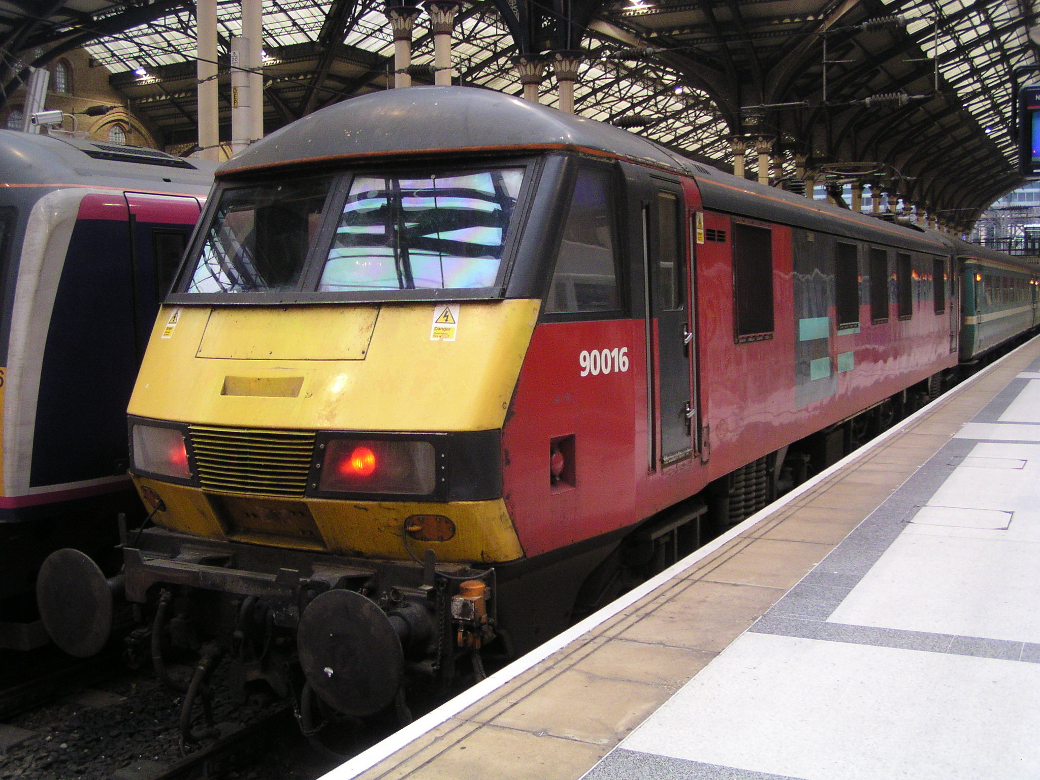 BR Class 90/0, no. 90016 at London Liverpool Street on 6th March 2004. This locomotive carries Rail Express Systems livery.